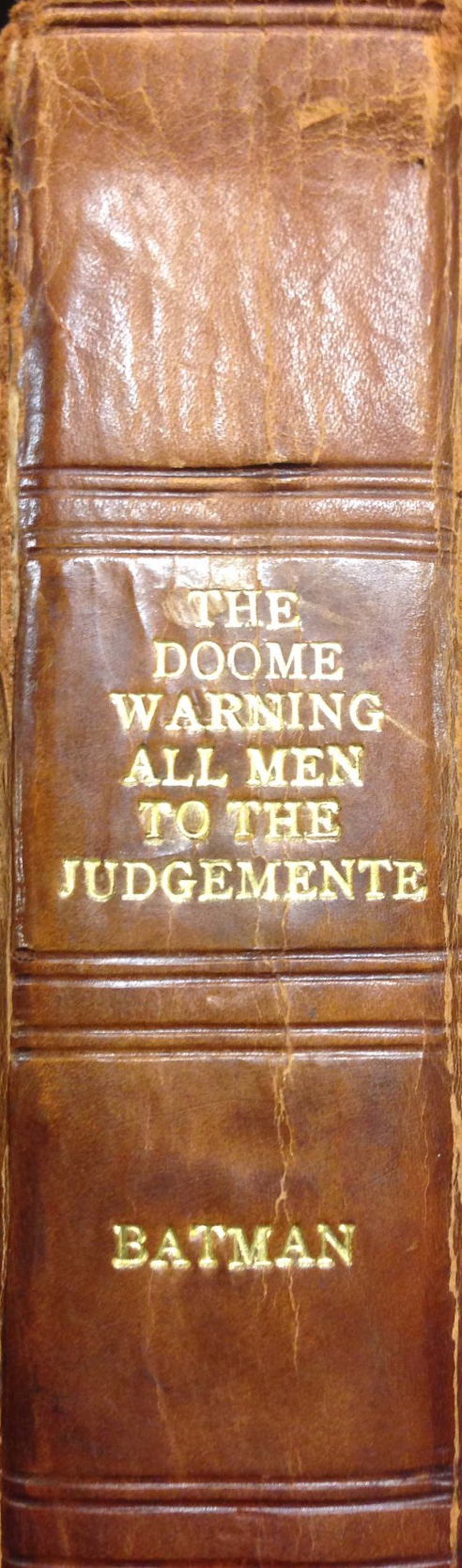 Cropped photograph showing the spine/binding of The doome warning all ment to the judgemente [English] by Stephen Batman (d. 1584). Full title: The doome warning all men to the iudgemente : wherein are contayned for the moste part all the straunge prodigies hapned in the worlde, with diuers secrete figures of Reuelations tending to mannes stayed conuersion towards God: in maner of a generall chronicle / gathered out of sundrie approued authors by St. Batman. Printed in London by Ralphe Nubery, 1581. 437 p. : ill. 22 cm. (4to). STC 1582, Houghton Library, Harvard University